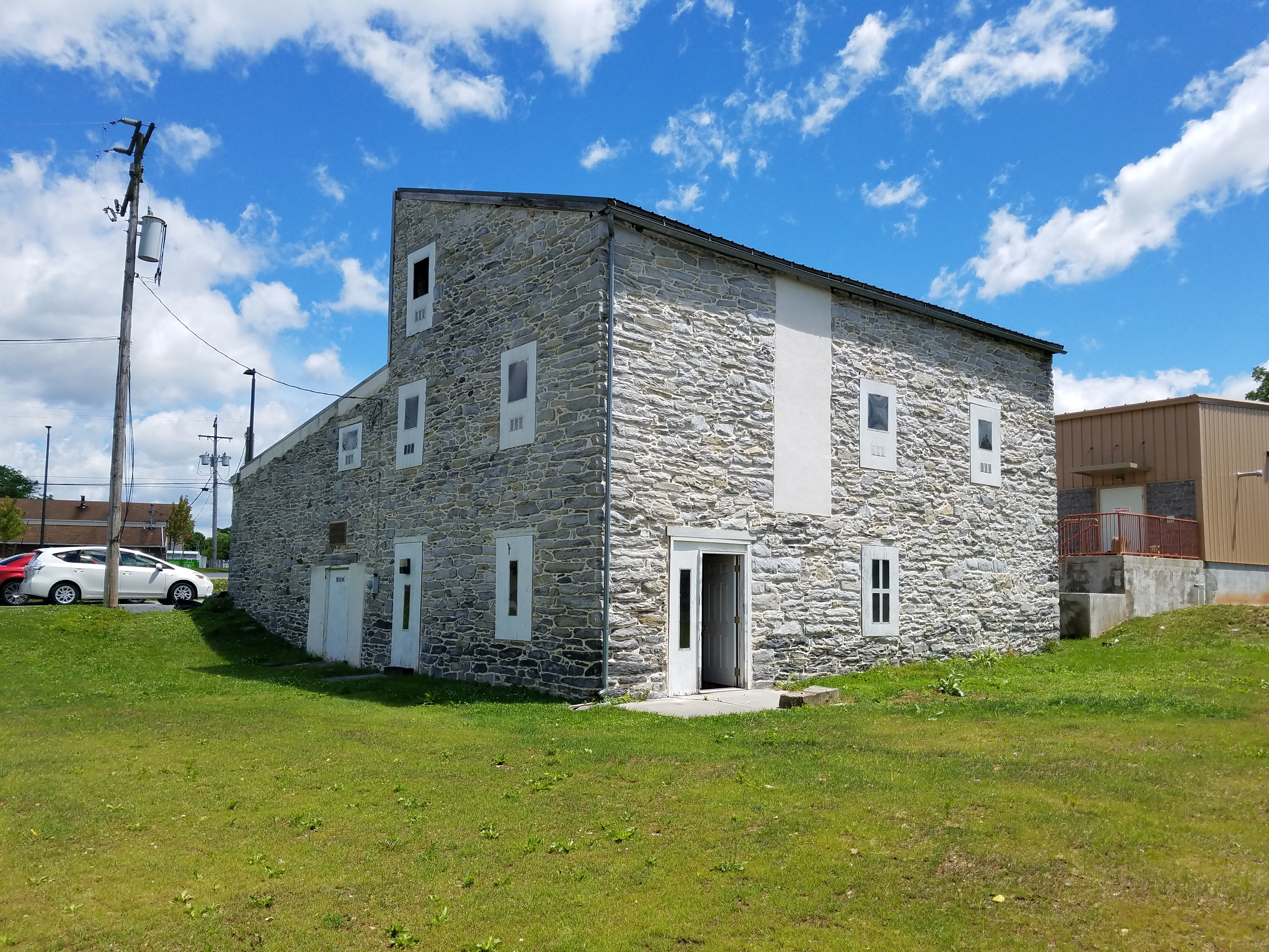 Light's Fort - Northeast View of the Building.